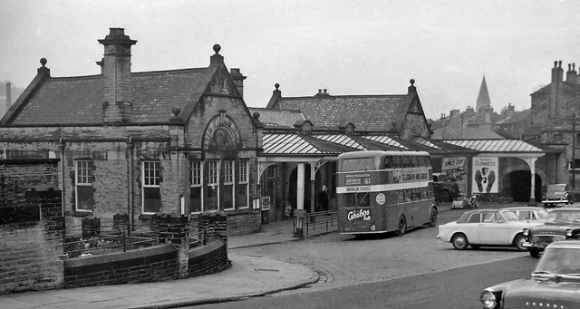 Bingley Station, exterior Down side. View SE, towards Bradford and Leeds of entrance on Down side; ex-Midland Leeds/Bradford - Skipton, Hellifield, Carlisle, Morecambe etc Main line.